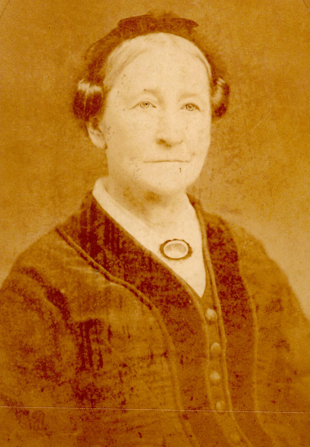 More than 100 year old photo from family photo collection